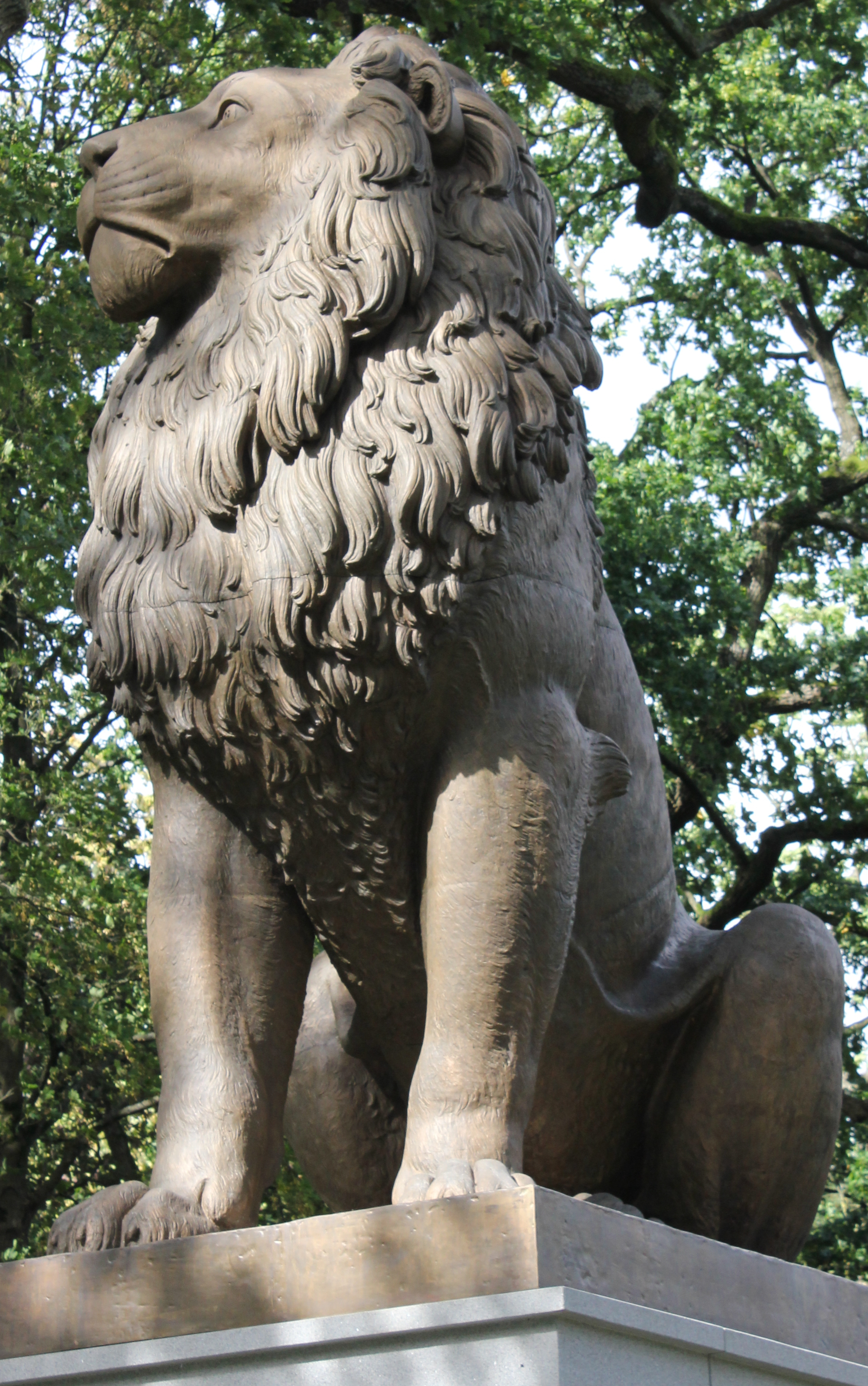 Flensburg Lion or Isted Lion in Flensburg placed on the Alter Friedhof (Old Cemetery). Close-up Image